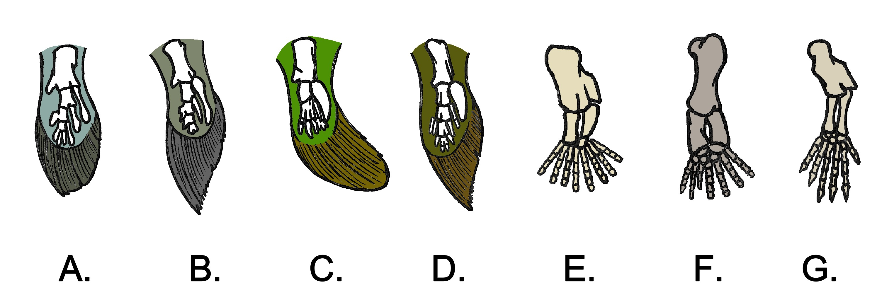 Comparison between the limbs of Sarcopterygiin fishes and tetrapods. A. EN:Eusthenopteron B. EN:Gogonasus C. EN:Panderichthys D. EN:Tiktaalik E. EN:Acanthostega F. EN:Ichthyostega ( hindleg ), and G. EN:Tulerpeton.